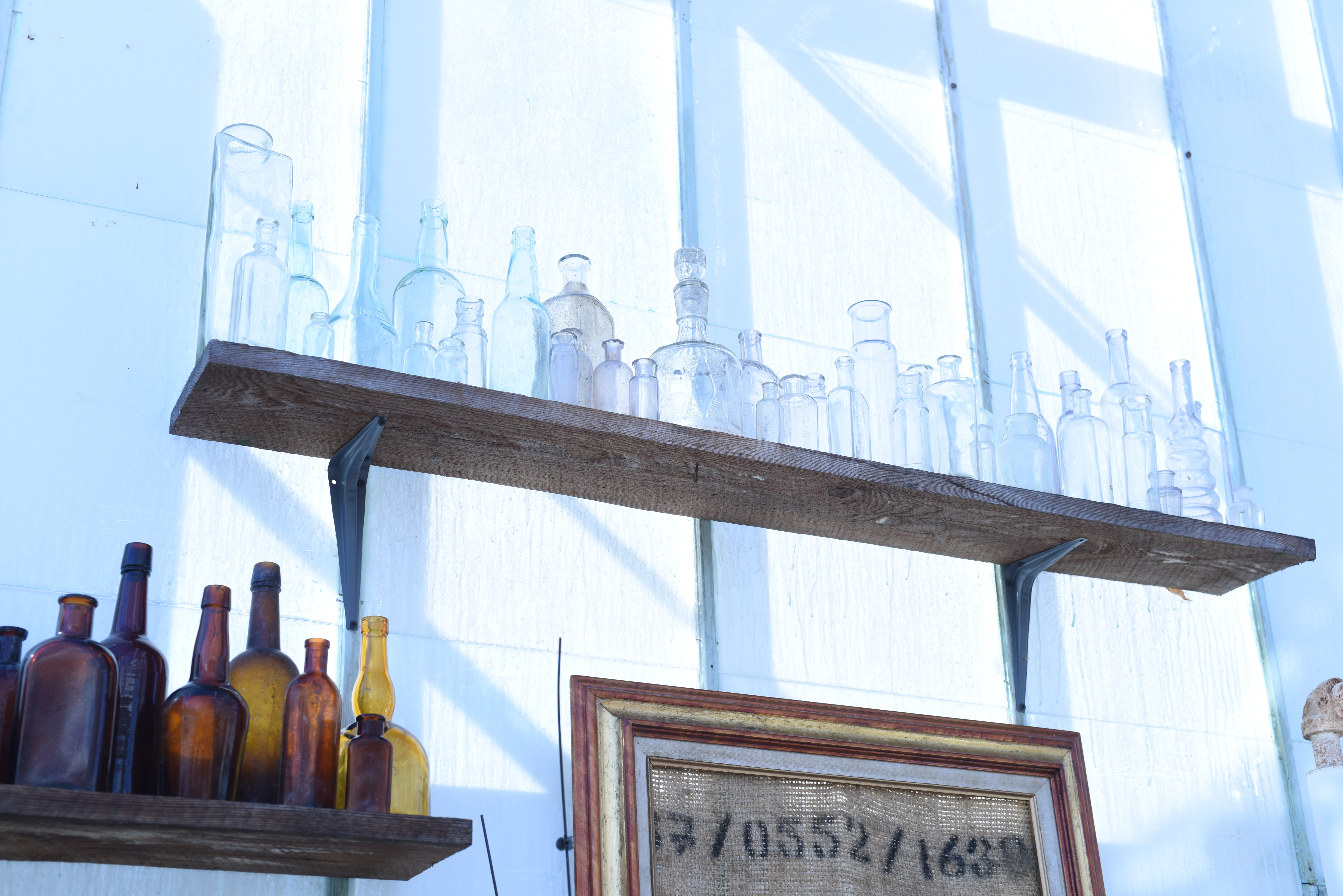 Southbury Greenhouse